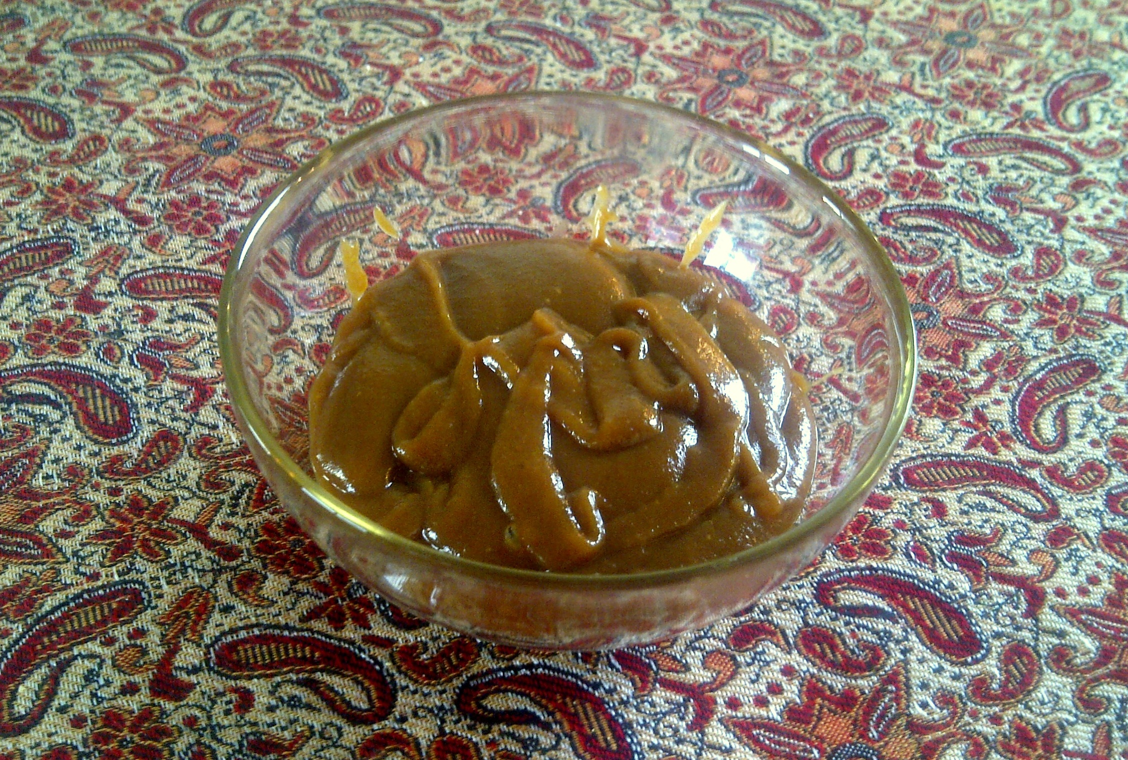 SAMANOO (also spelled SAMANOU and SAMANU) is a Persian sweet paste which is usually prepared for the Persian new year (Nowruz). Samanoo is one of the main items of Haft-Sin Table which Persians (Iranians) make for Nowruz. [Photo by Pejman Akbarzadeh / Persian Dutch Network]